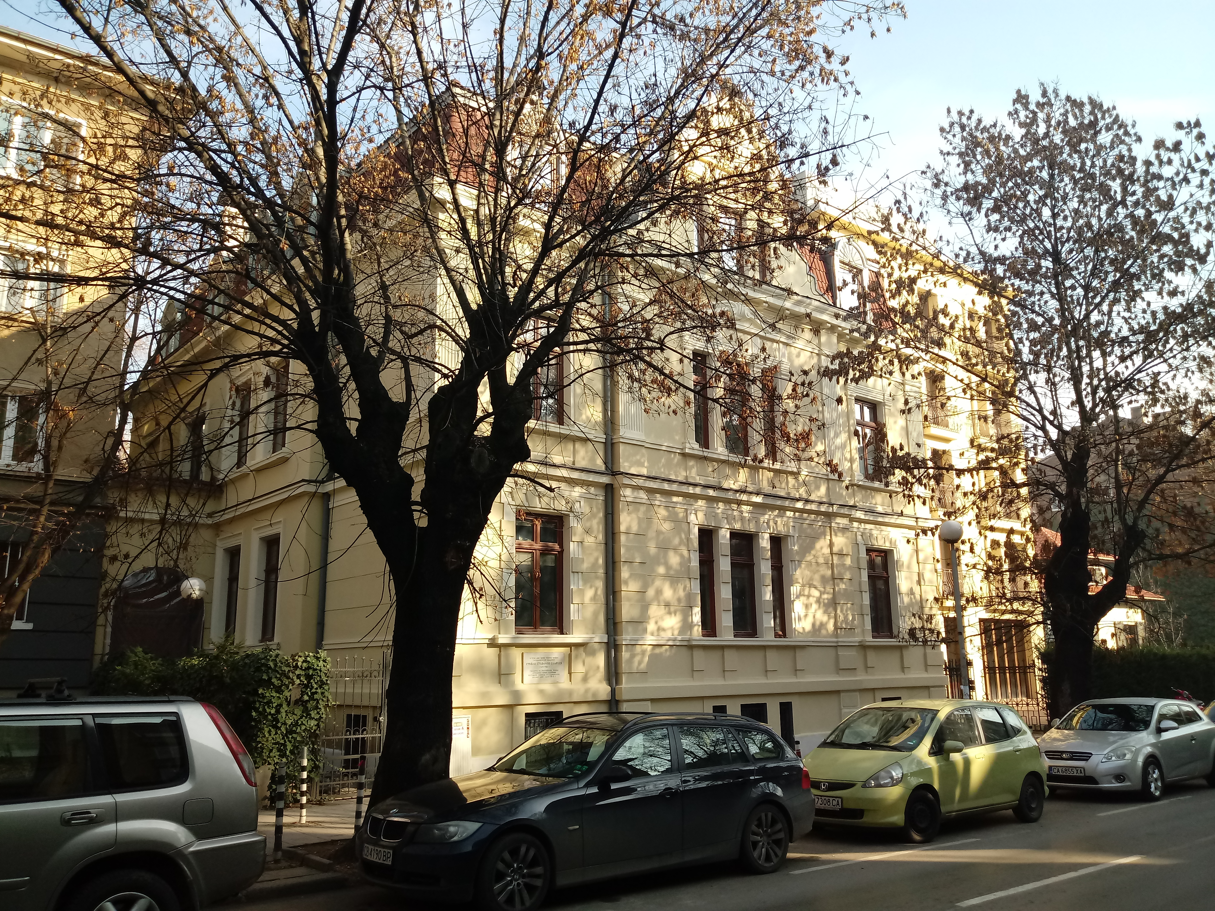 Stefan Slavchev home with memorial plaque, Oborishte Str., Sofia